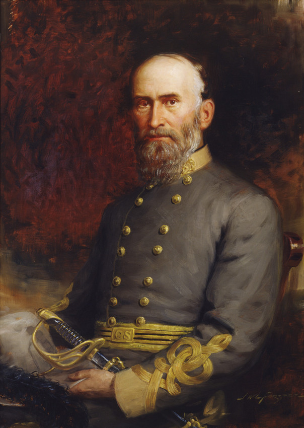 Confederate general Jubal A. Early, in full dress uniform, holds his plumed hat and sword in this 1912 portrait from photograph taken in 1865 by John Wycliffe Lowes Forster. Early died in 1894, and this painting was based on an 1865 photograph.